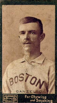 Charlie Ganzel (19th century baseball card)